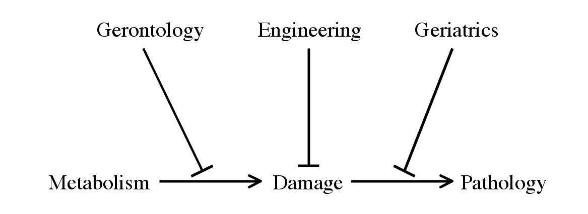 Diagram depicting the approaches to medically treating aging. "[The] arrows with flat heads are a notation used in the literature of gene expression and gene regulation, and they mean "inhibits". Thus, geriatrics is the attempt to stop damage from causing pathology; traditional gerontology is the attempt to stop metabolism from causing damage; and [the engineering arrow represents the Strategies for Engineered Negligible Senescence (SENS) approach, which is to] periodically to eliminate the damage, so keeping its abundance below the level that causes any pathology." Aubrey de Grey - No copyright asserted[1]